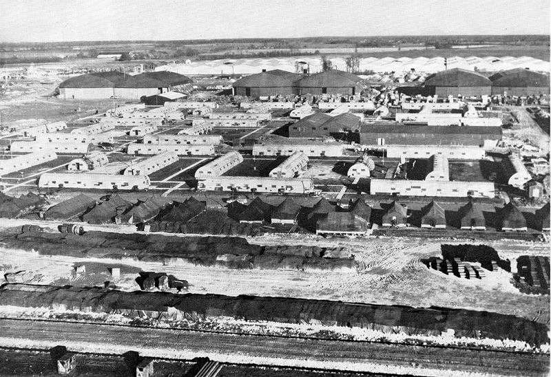 La Martinerie Air Depot - 1951 France Source: United States Air Force